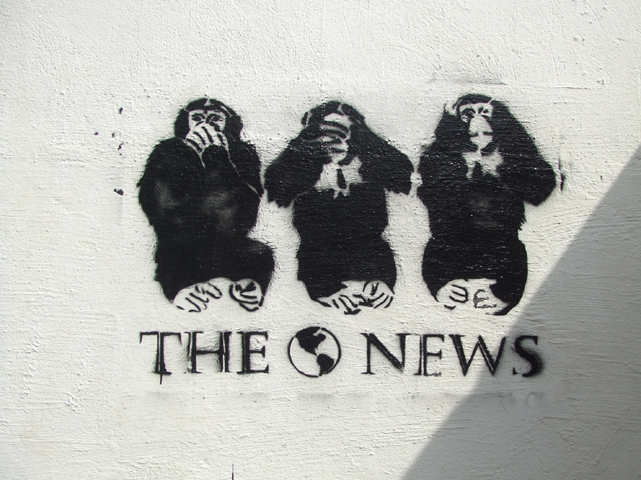 Three Wise Monkeys stencil in Barcelona, Spain.